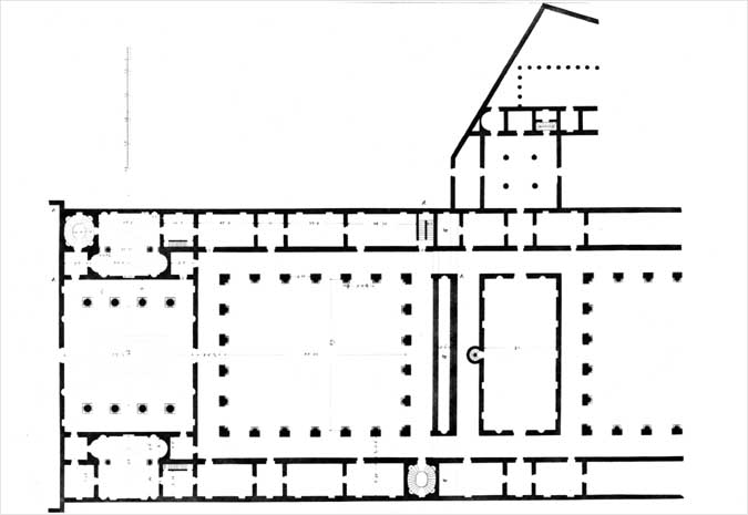 Convento della Carità in Venice designed by Andrea Palladio, 1560. Drawing by Ottavio Bertotti Scamozzi, 1783.